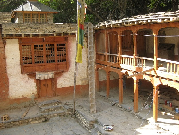 photo- Chhairo gompa Gyalpo+gallery from courtyard, Chhairo, Lower Mustang, Nepal